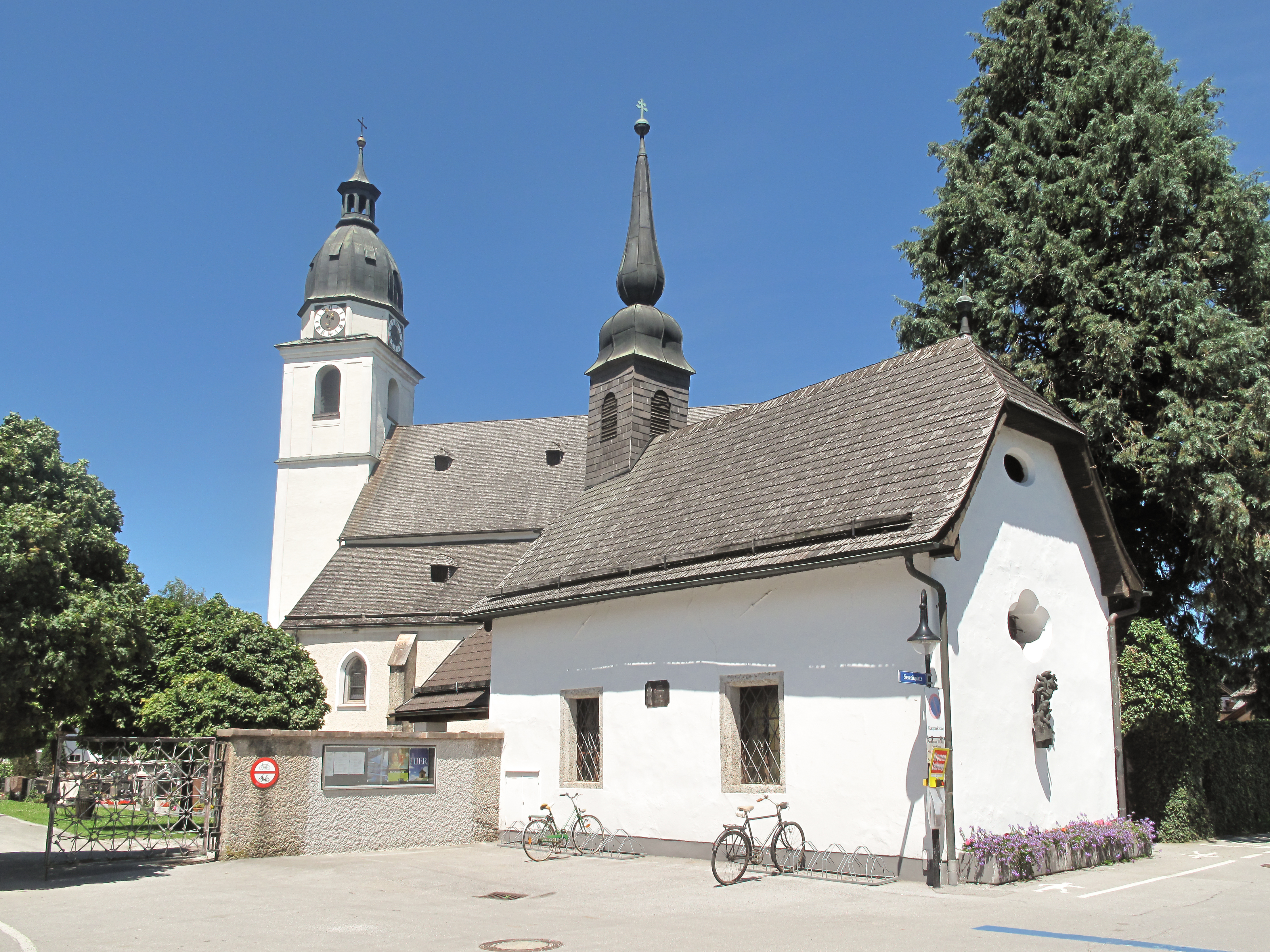 Kuchl, parish church, in front the mortuary.